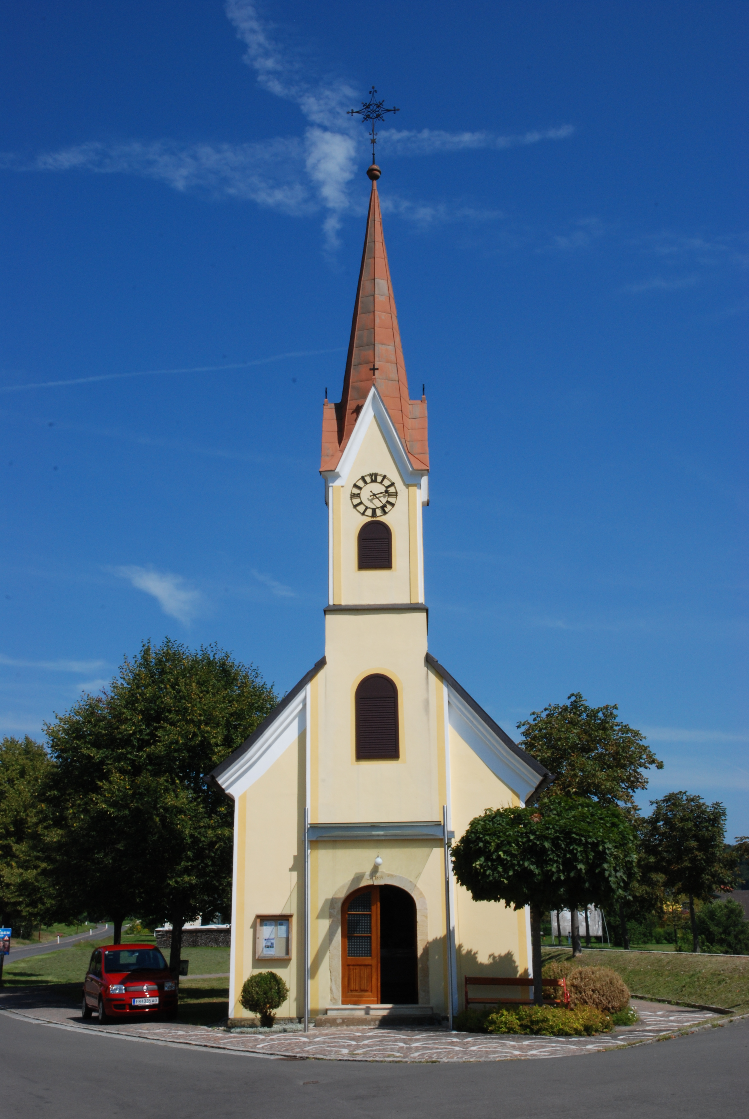 Ortskapelle Bairisch-Kölldorf